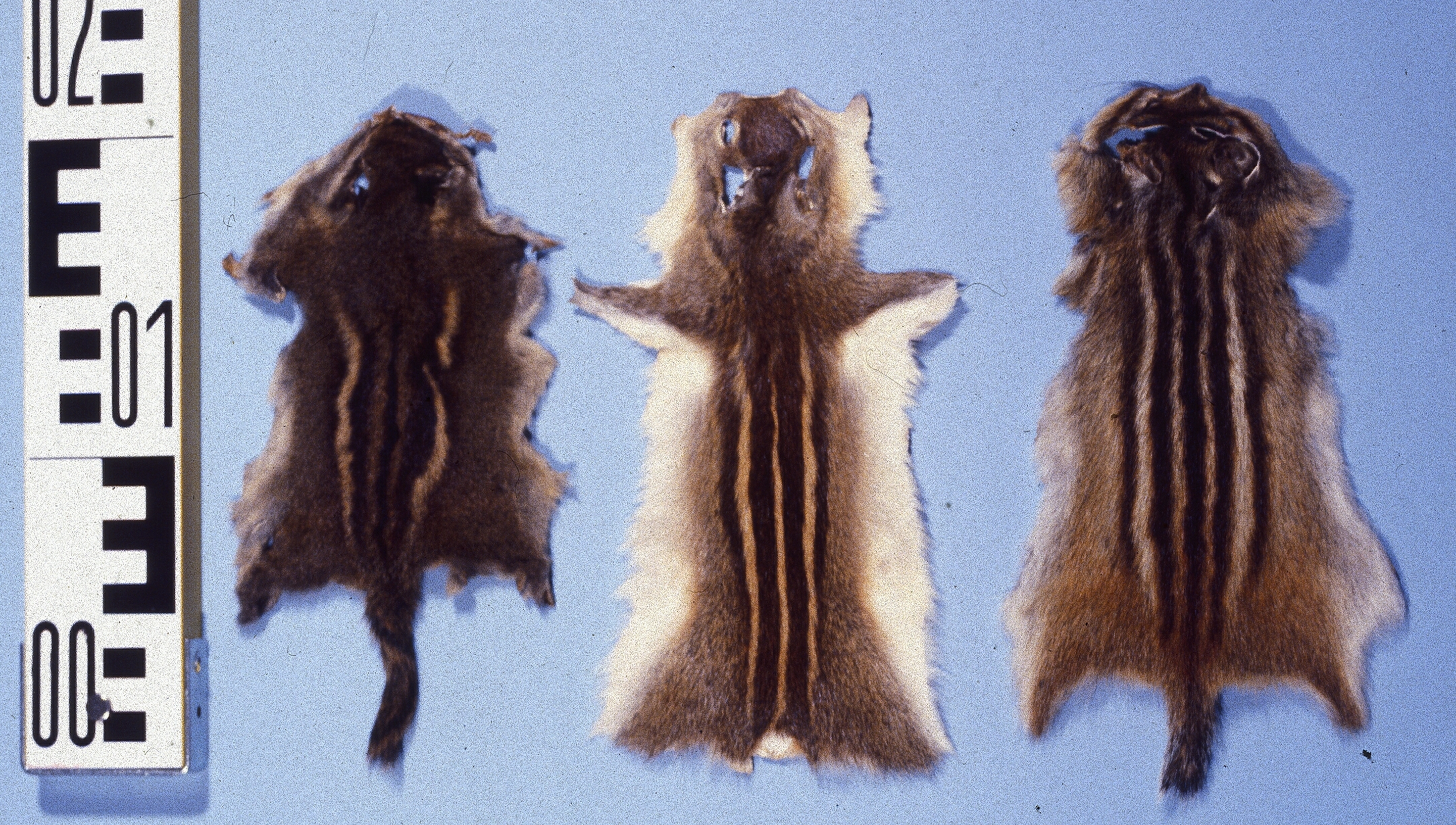 Eastern chipmunk fur skins (Tamias striatus); Indian palm squirrel (Funambulus palmarum); Siberian chipmunk, (Tamias sibiricus). At the fur skin collection, Bundes-Pelzfachschule, Frankfurt/Main, Germany